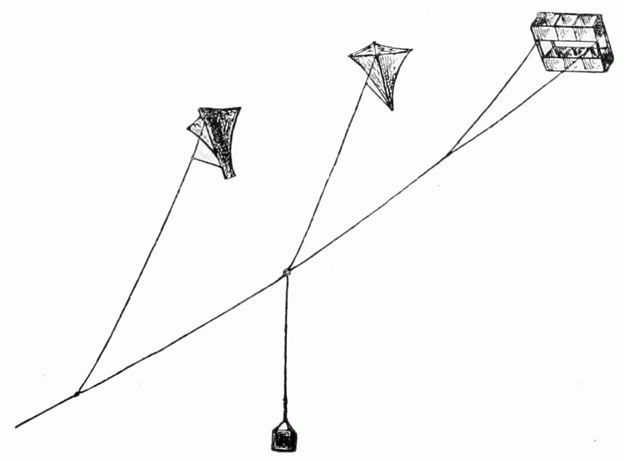 Train of tandem kites bearing a meteorograph